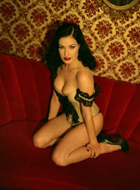 Dita Von Teese photographed by Steve Diet Goedde.